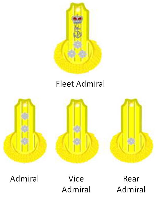 Royal Navy Admiral Shoulder Boards from the 1840s. Produced in Microsoft Office and Windows Paint